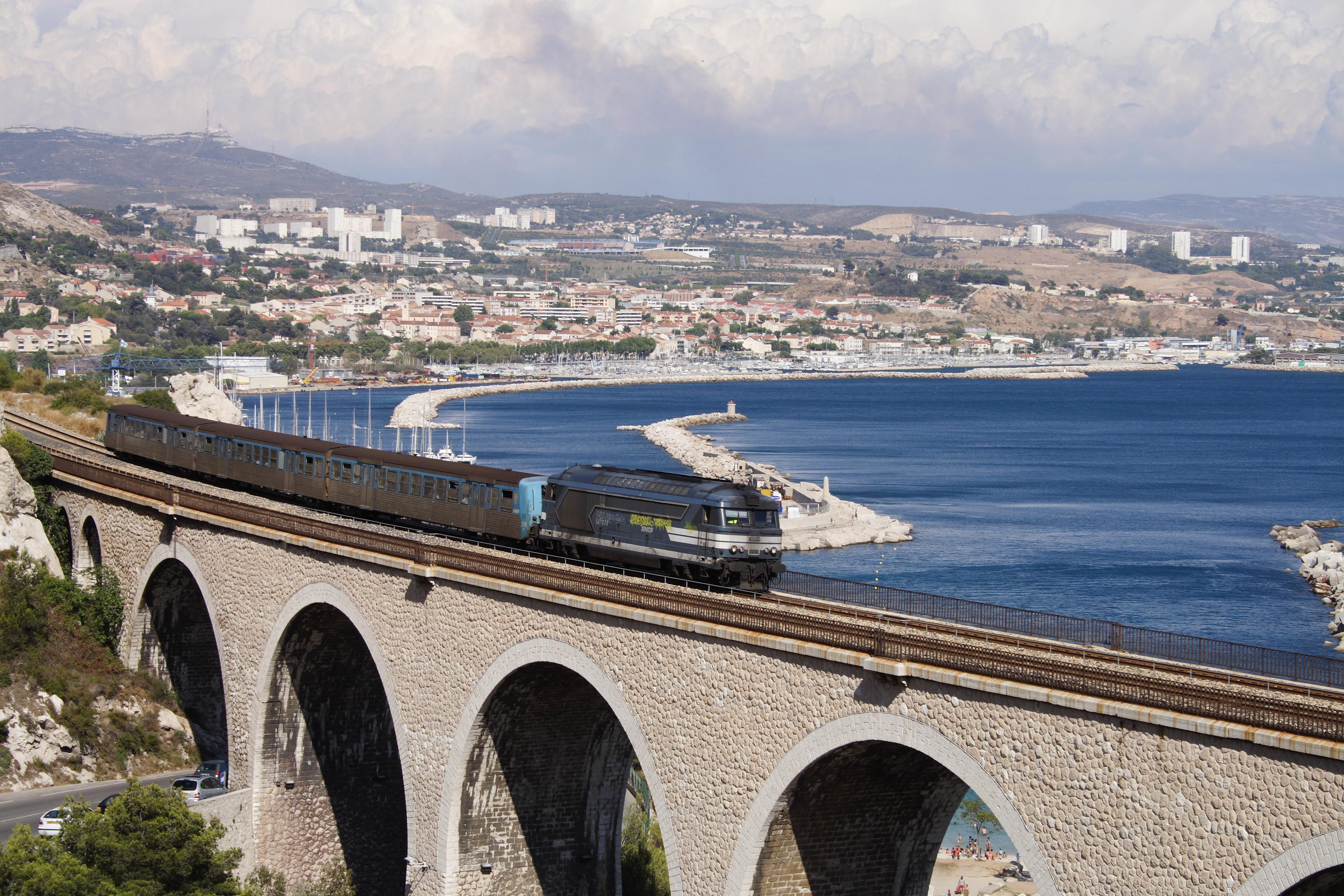 A diesel-electric locomotive BB 67400 (567573) on the 'Viaduc de Corbières', near l'Estaque (Marseille, France).